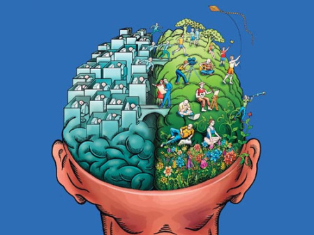 Teoría de los Tres Mundos según Karl Popper